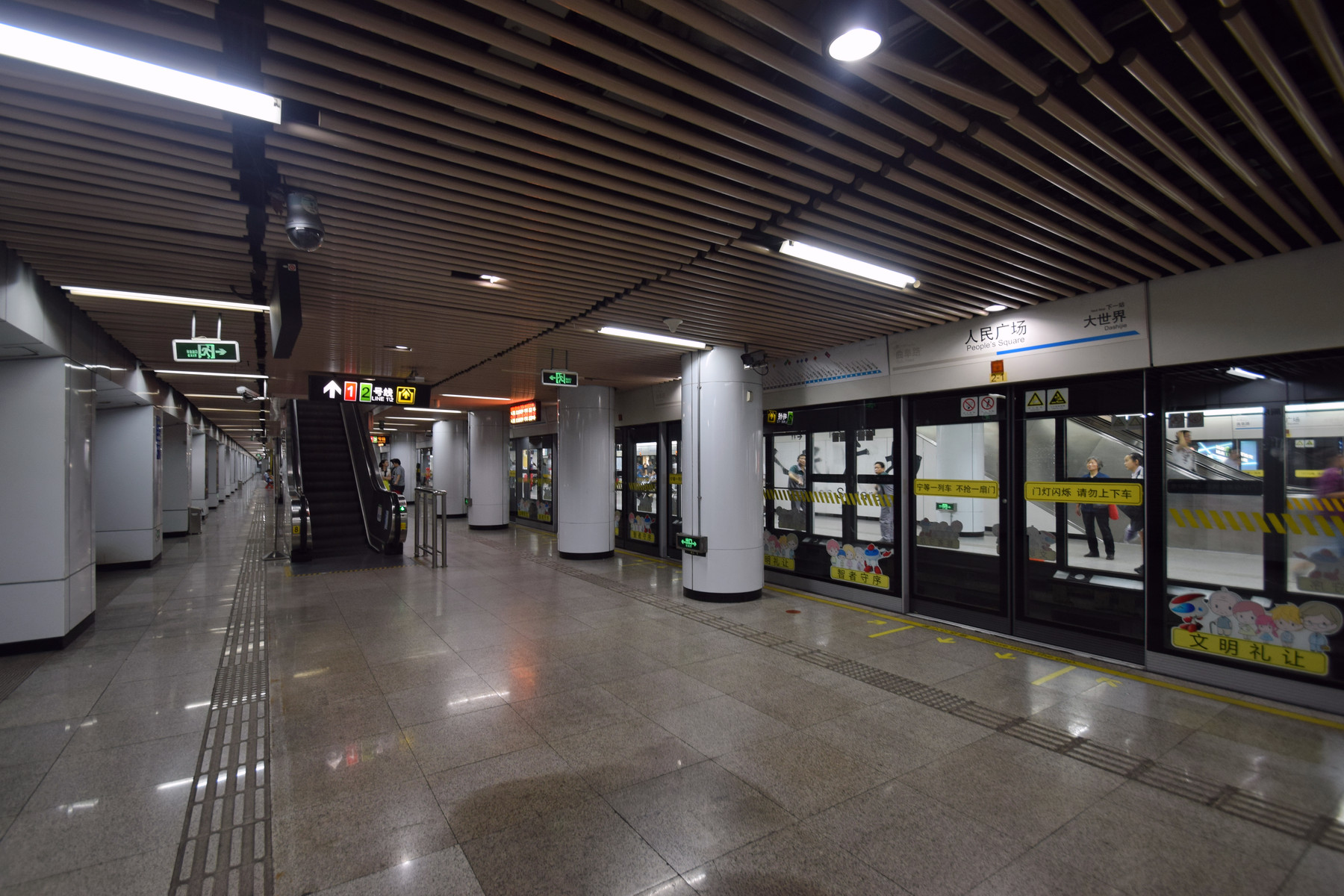 Line 8 Side Platform of People's Square Station after renovation, Shanghai Metro